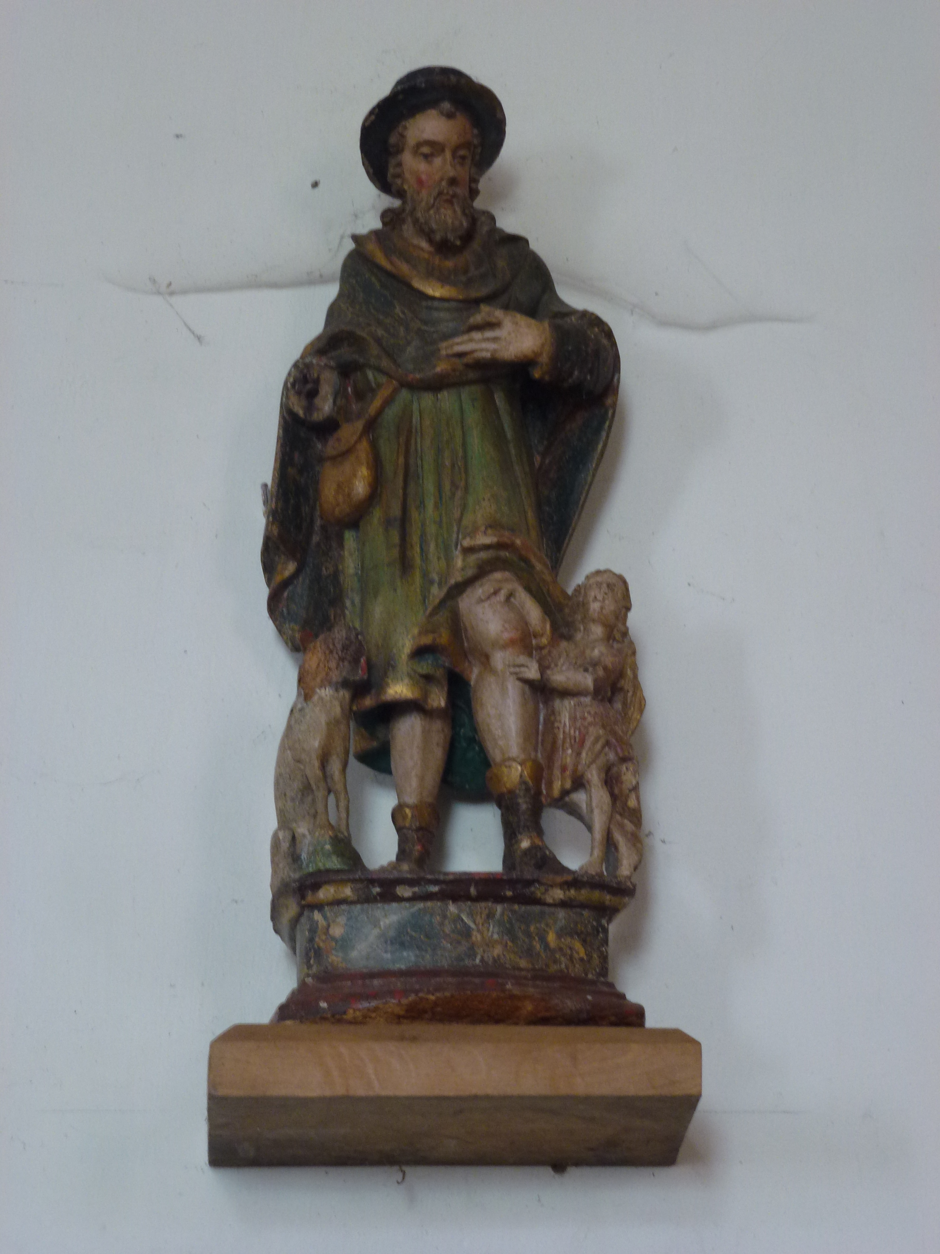 Mametz (Pas-de-Calais, Fr), église Saint-Honoré de Crecques, statue Saint Roch PM62001014